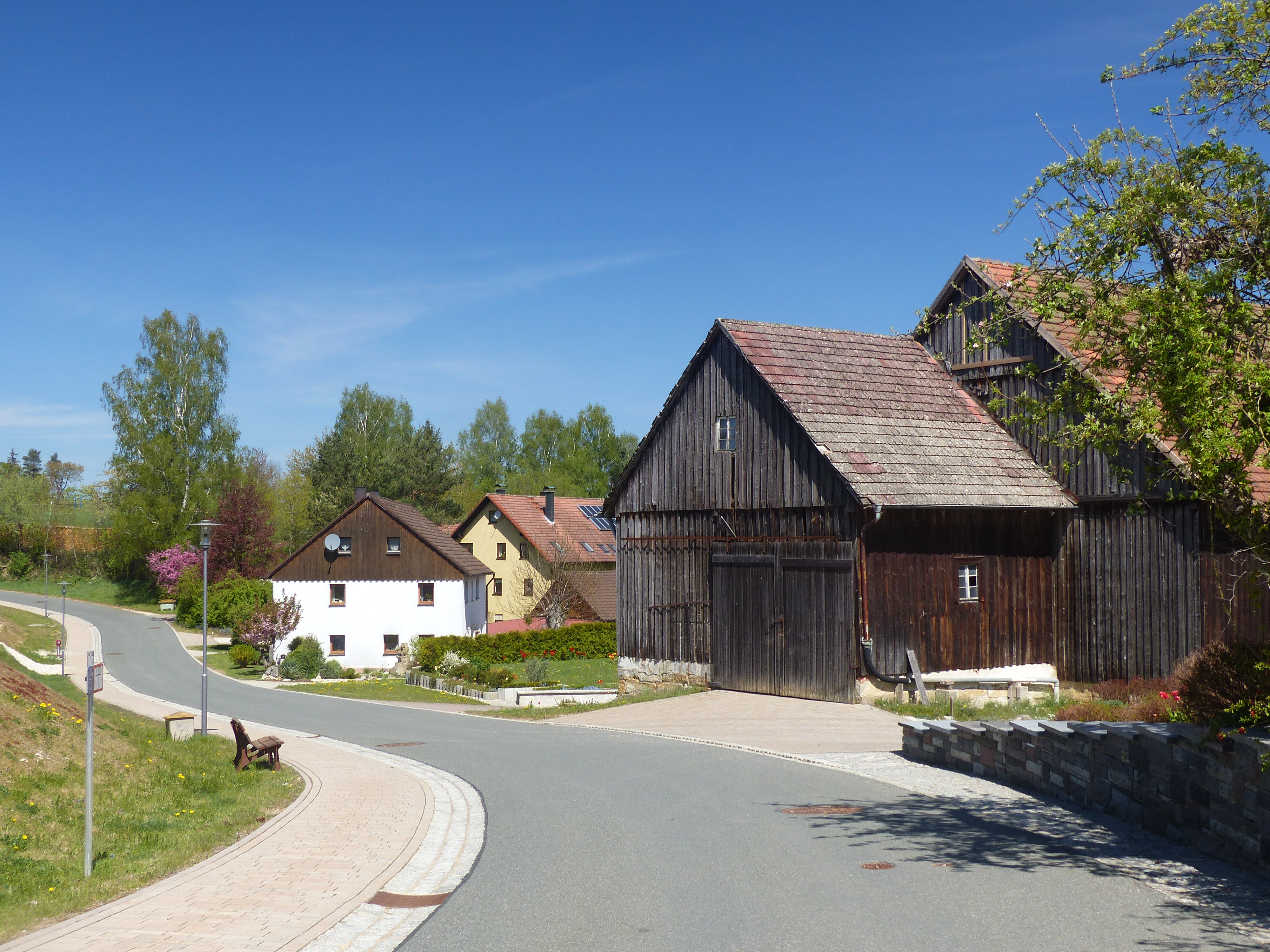 The village Hinterkleebach, a district of the municiplality of Hummeltal.